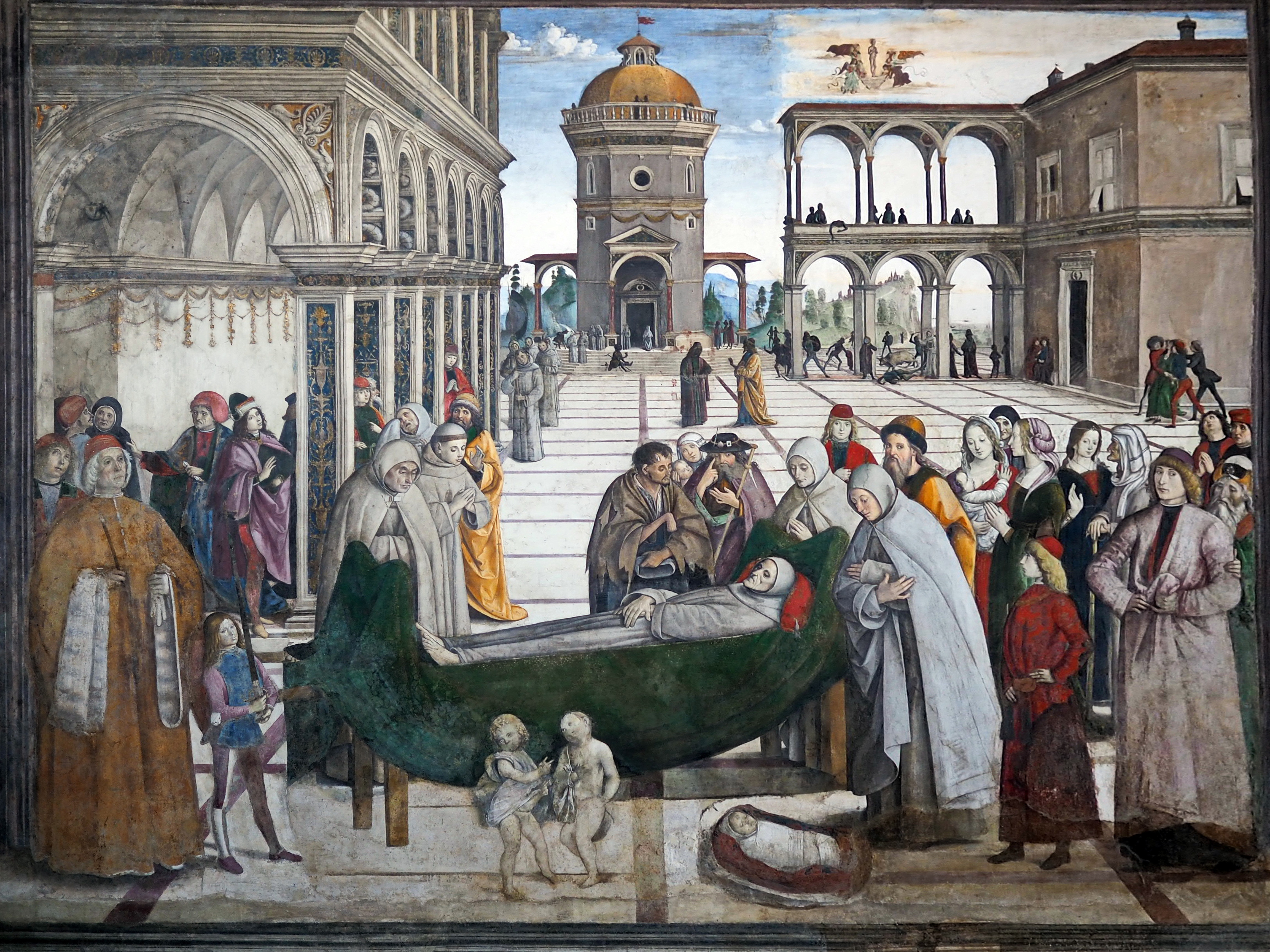 Santa Maria in Aracoeli (Rome), Cappella Bufalini, Funeral of St Bernhardin